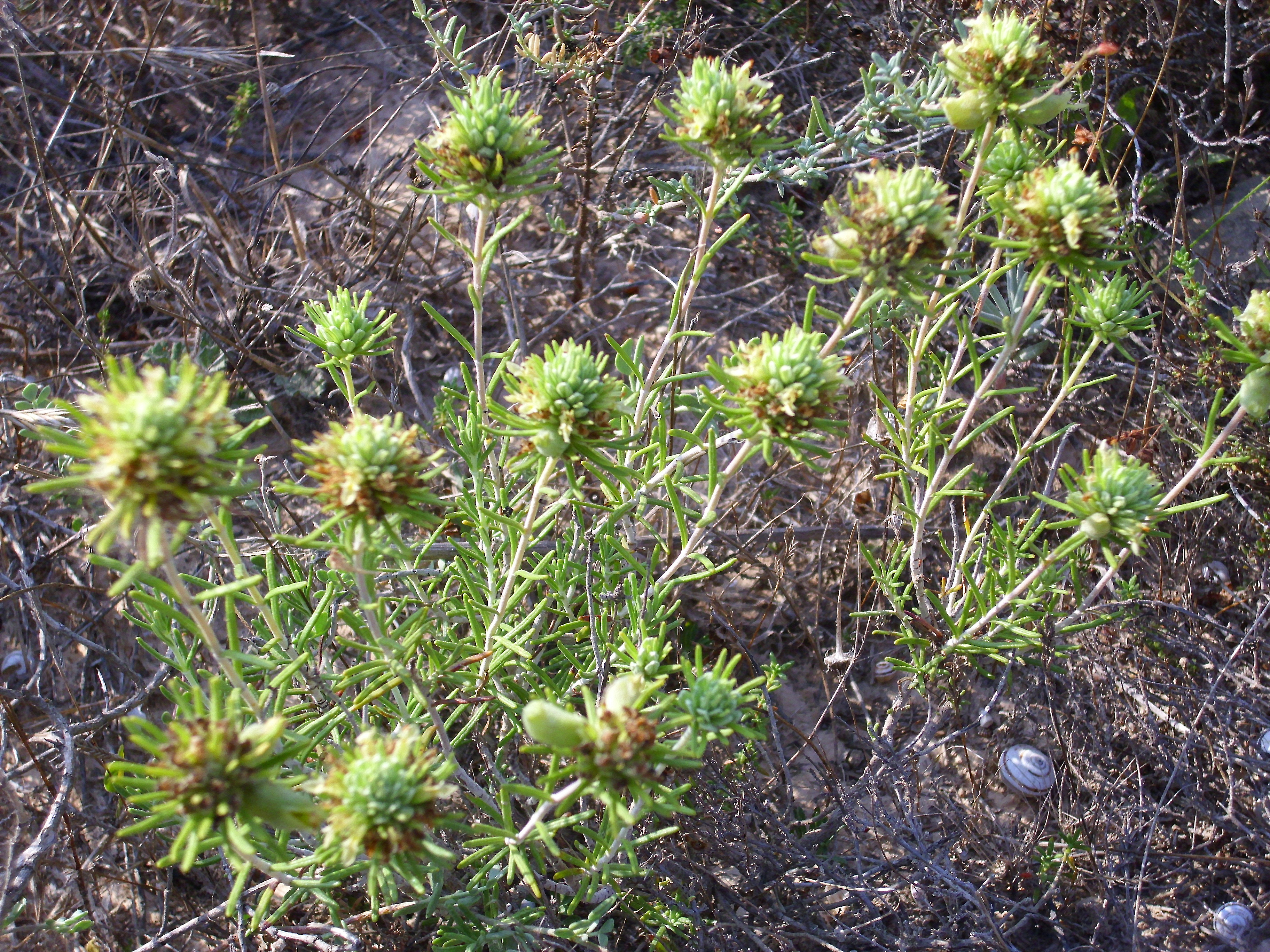 Teucrium capitatum Habitus, La Mata, Torrevieja, Alicante, Spain.